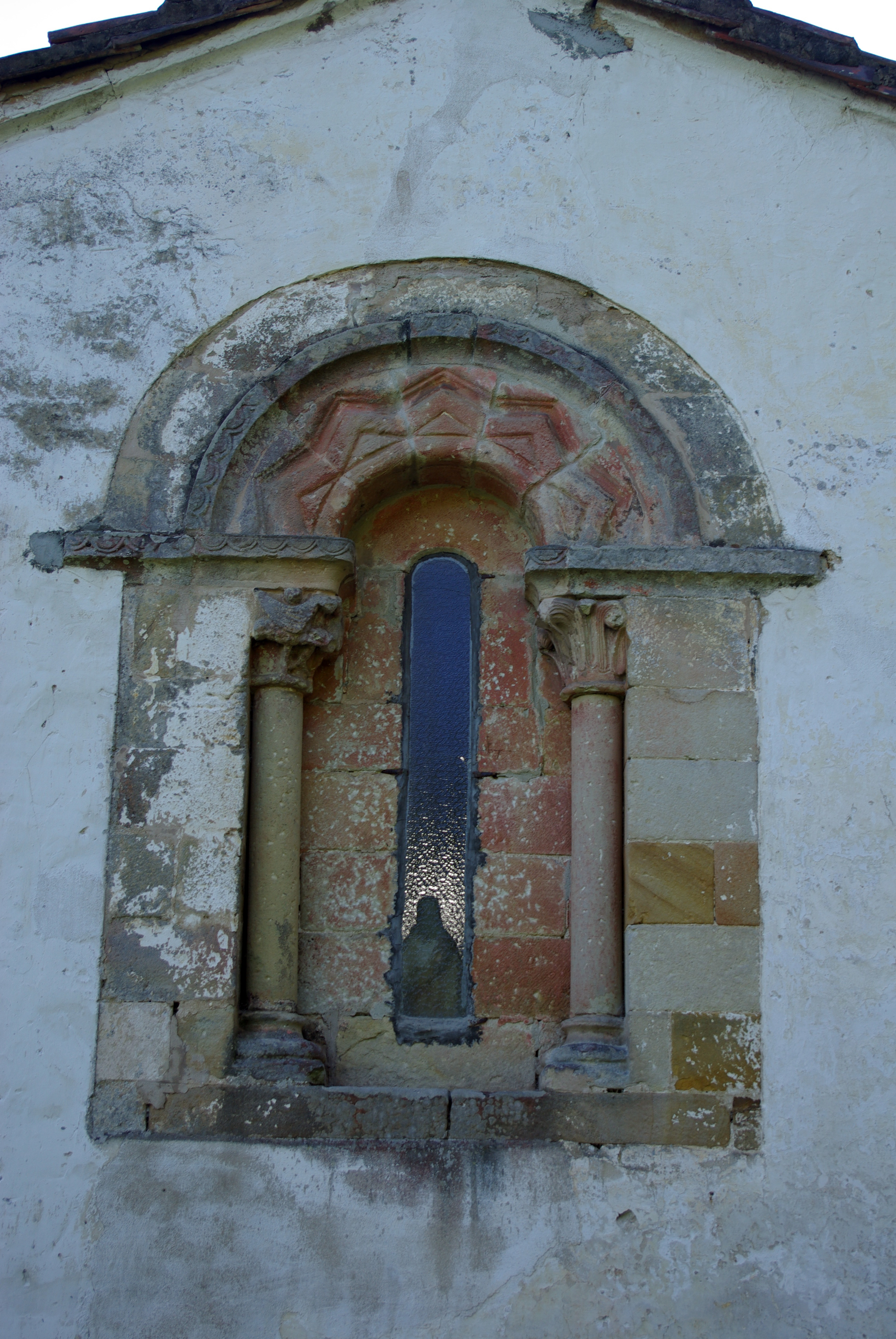 Saint Mary church in Sariegomuerto, Villaviciosa (Asturias, Spain).